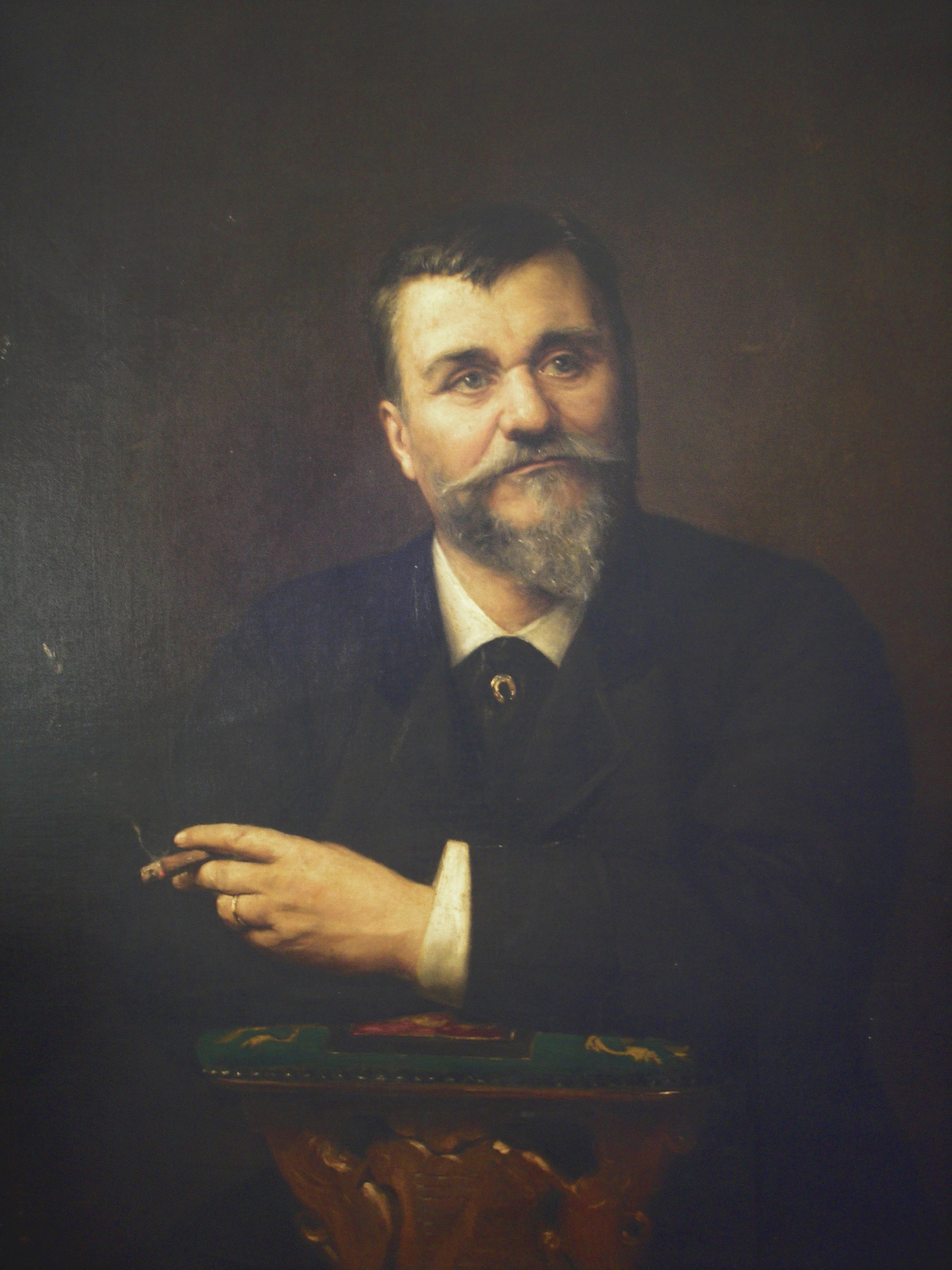 Portrait in the oil of Jean-Vital Jammes.